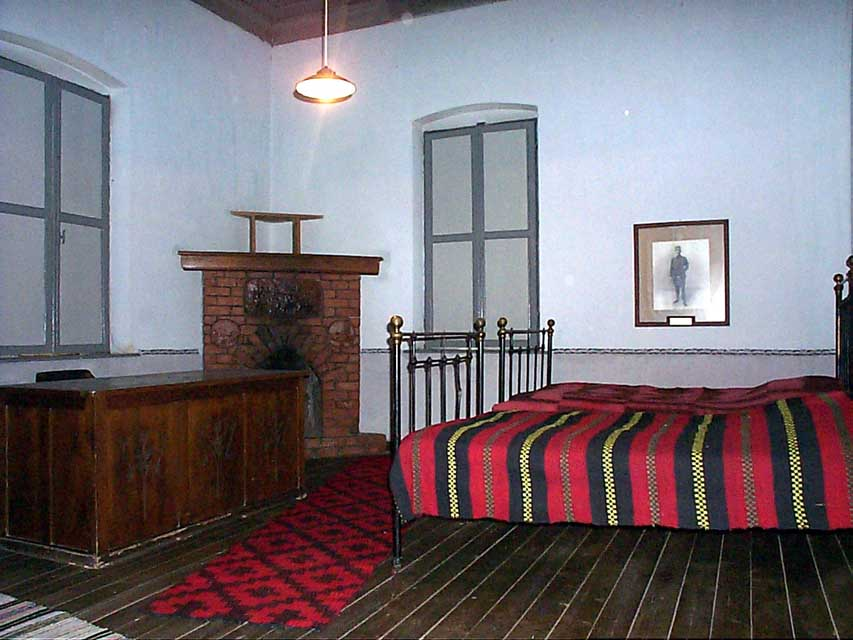 Room of HRM Constantine, image from the Balkan Wars Museum, Yefira, Central Macedonia, Greece